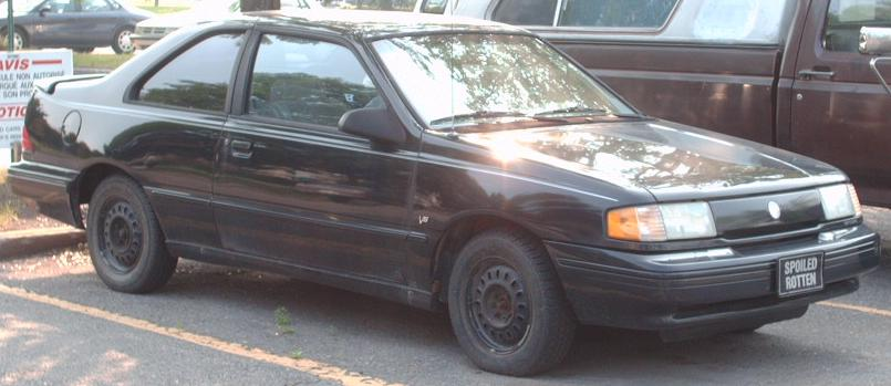 1992 Mercury Topaz Coupe photographed in Montreal, Quebec, Canada.